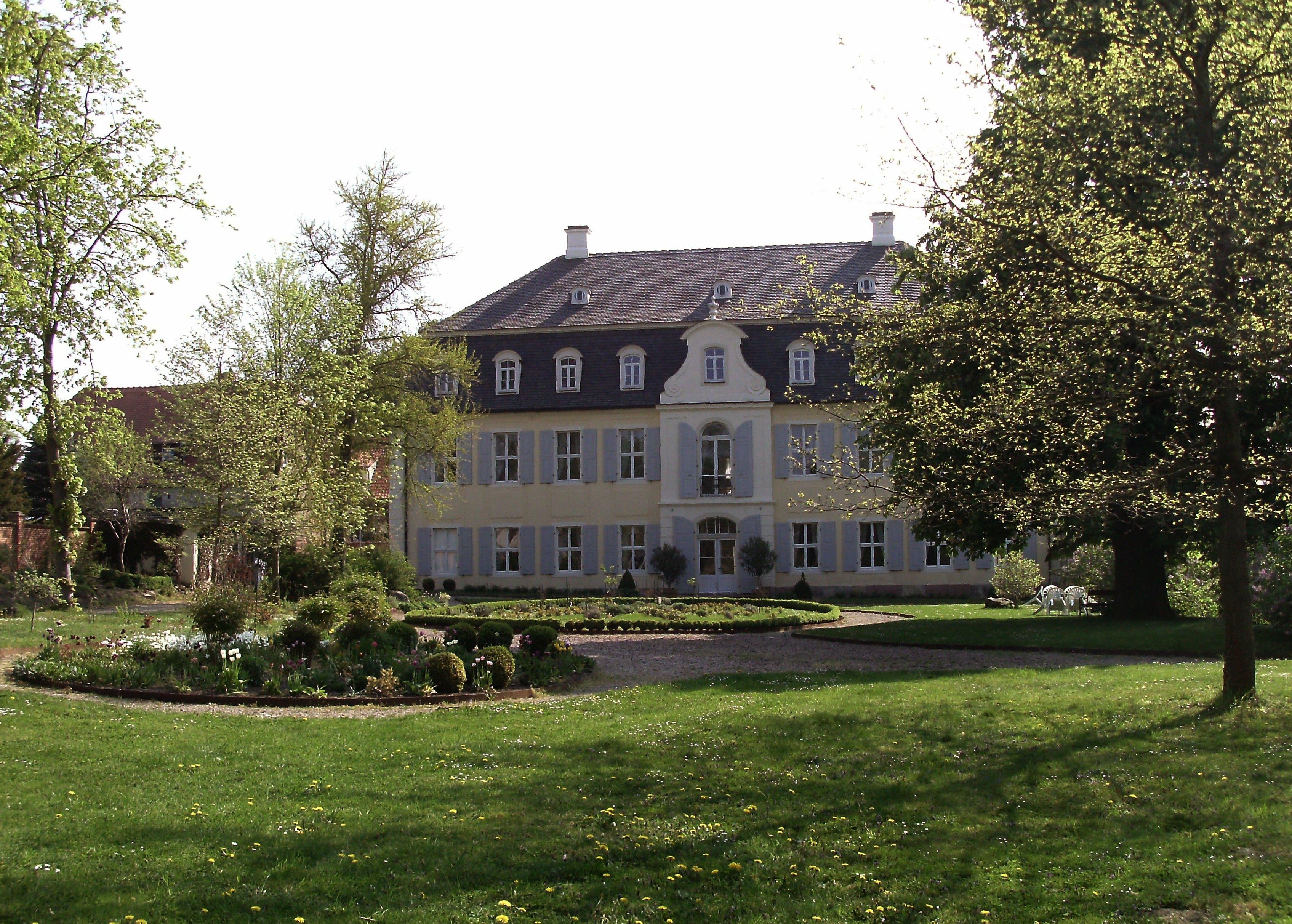 Ermlitz manor house (Schkopau, district of Saalekreis, Saxony-Anhalt) from the gardens